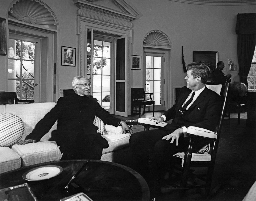 President John F. Kennedy (in rocking chair) meets with President of India, Dr. Sarvepalli Radhakrishnan. New York Times photographer, George Tames, walks at right in background. Oval Office, White House, Washington, D.C.